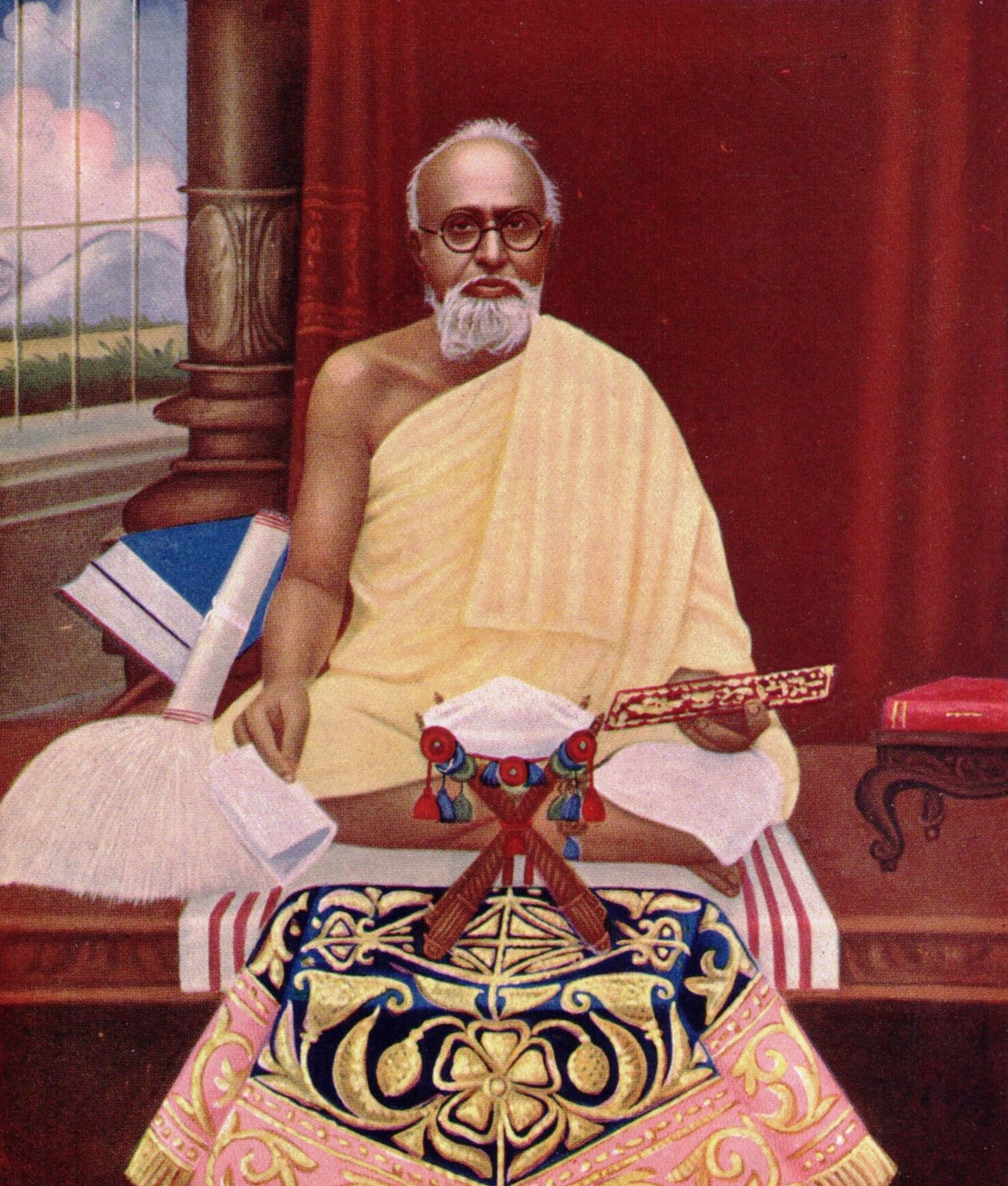 Jain Monk Vijayavallabhasuri